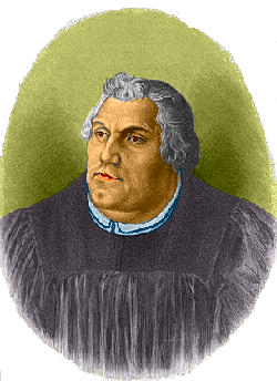 Copied from University of Texas Portrait Gallery. Coloured by uploader. Jan Arkesteijn 12:10, 26 September 2005 (UTC)